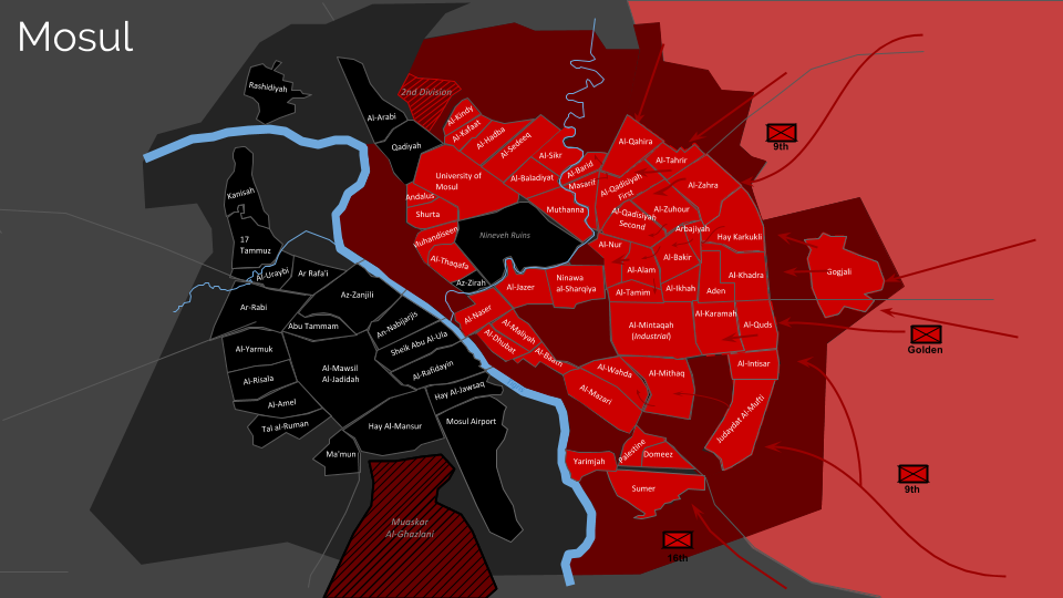 Battle of Mosul (17/01/17)